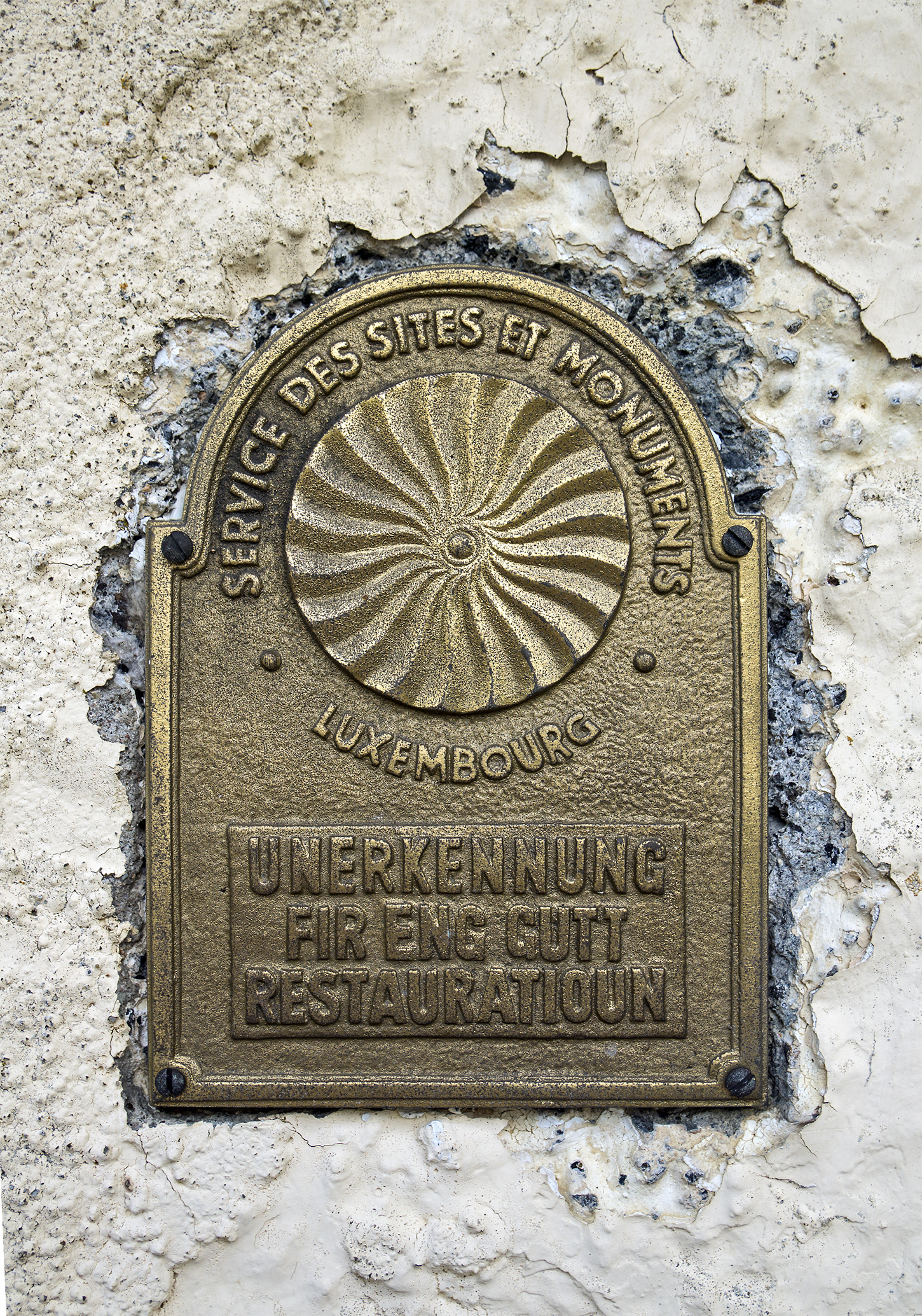 Plaque for a good restoration by Service des sites et monuments nationaux on fire station in Lieler